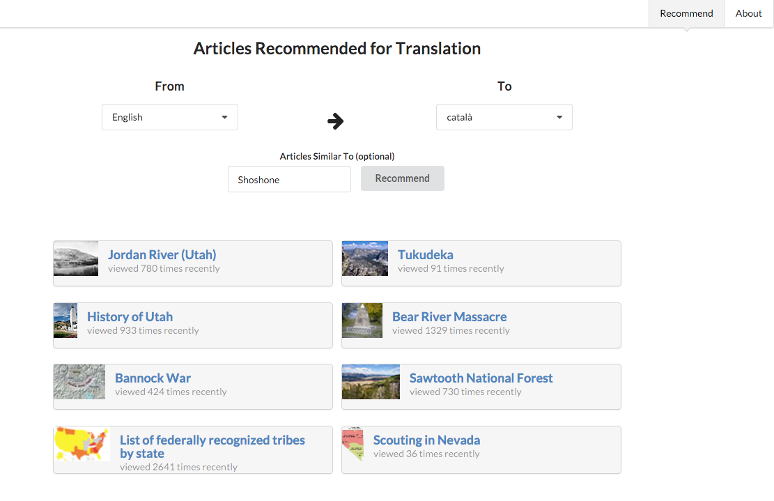 Screenshot of the Article recommendations tool designed by the Wikimedia Foundation Research & Data team.